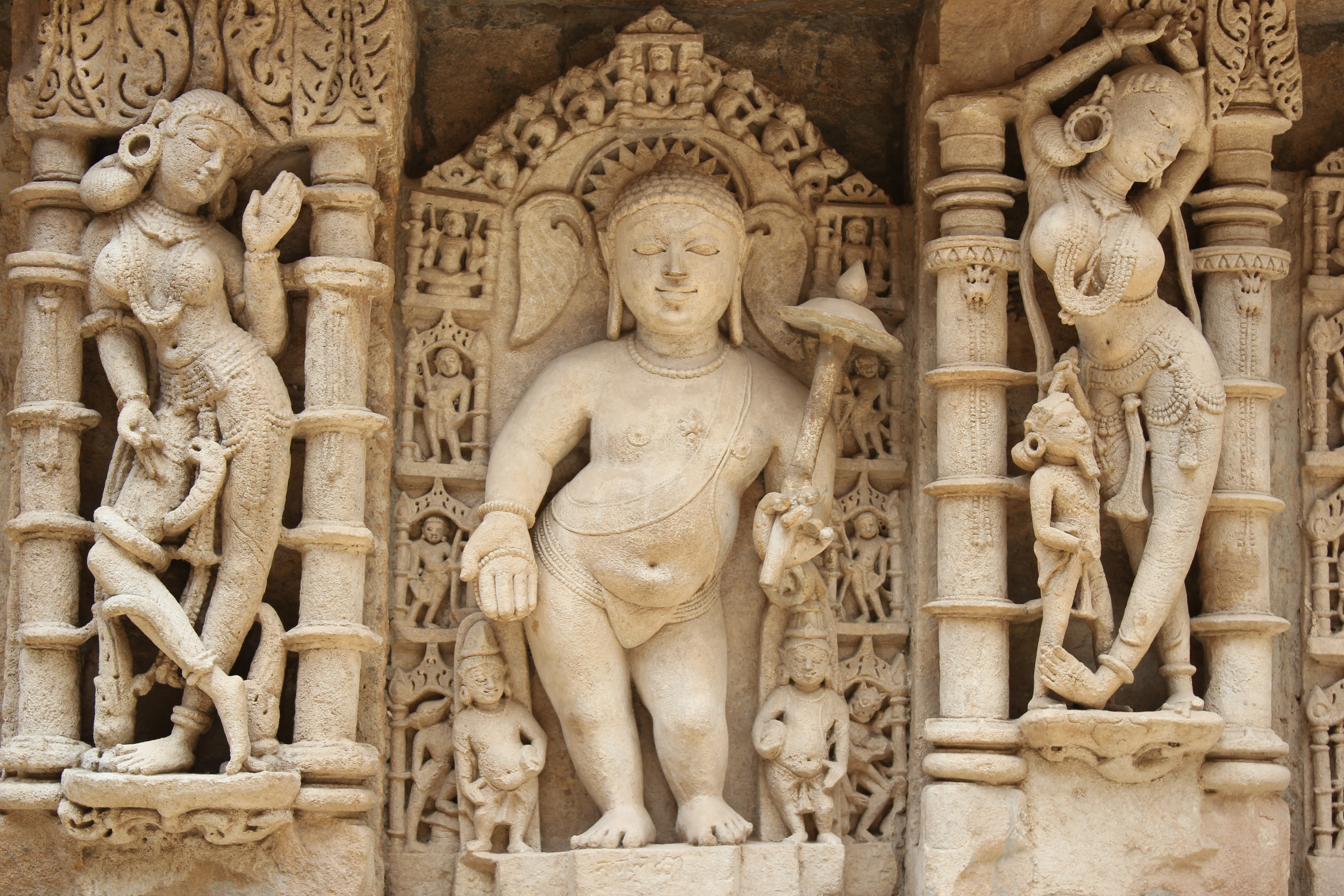 N-GJ-160